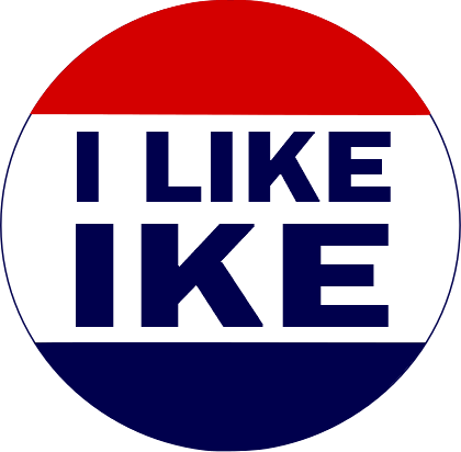 A simple Portable Network Graphics (.png) rendering of an "I Like Ike" button, supportive of the candidacy of U.S. Army General and Republican candidate for President of the United States Dwight D. Eisenhower during the United States presidential election, 1952. I (Tyrol5) created this image myself.